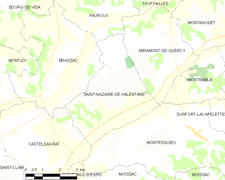 Map of French municipality Saint-Nazaire-de-Valentane